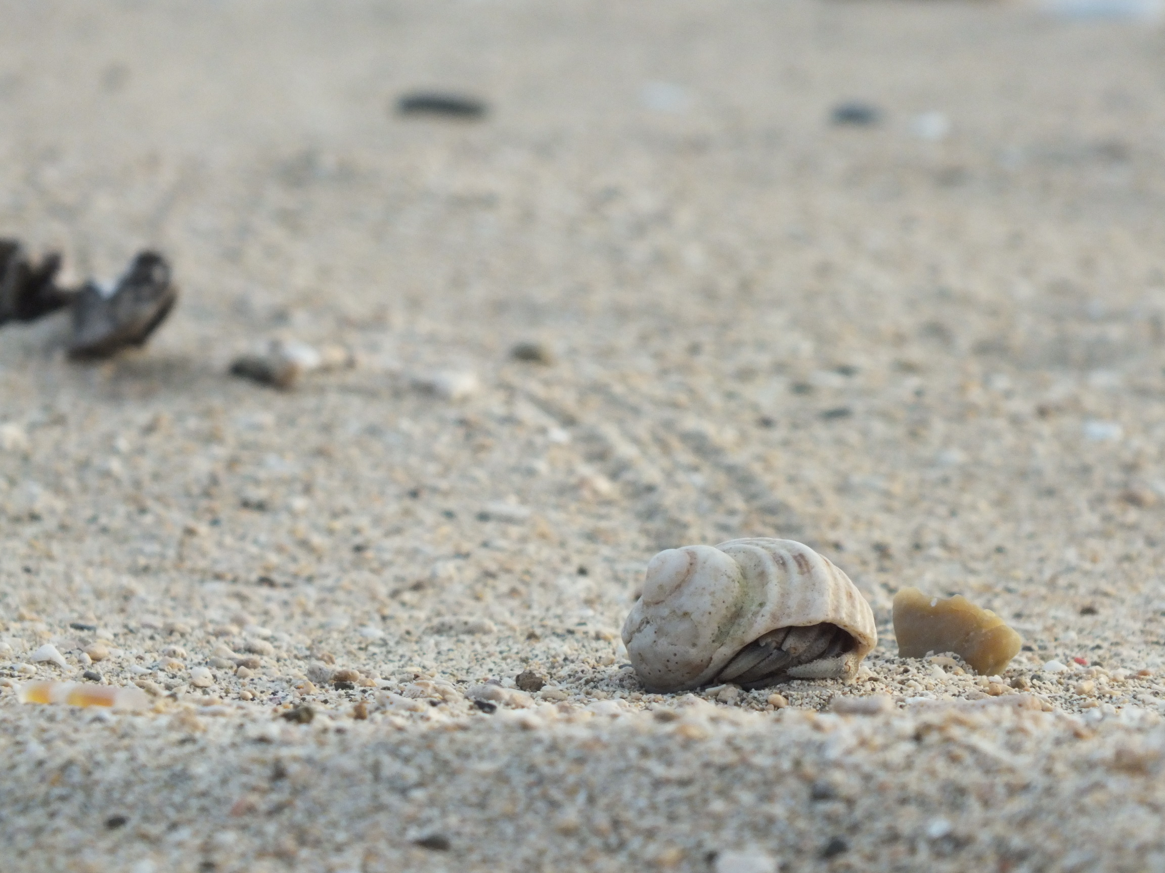 A hermit crab on Ahra-Beach in Kumejima Island, Okinawa Prefecture, Japan.